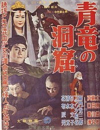 1956 movie poster for 1956 Japanese movie (青竜の洞窟 Seiryū no dōkutsu) lit. Cave of the Blue Dragon.